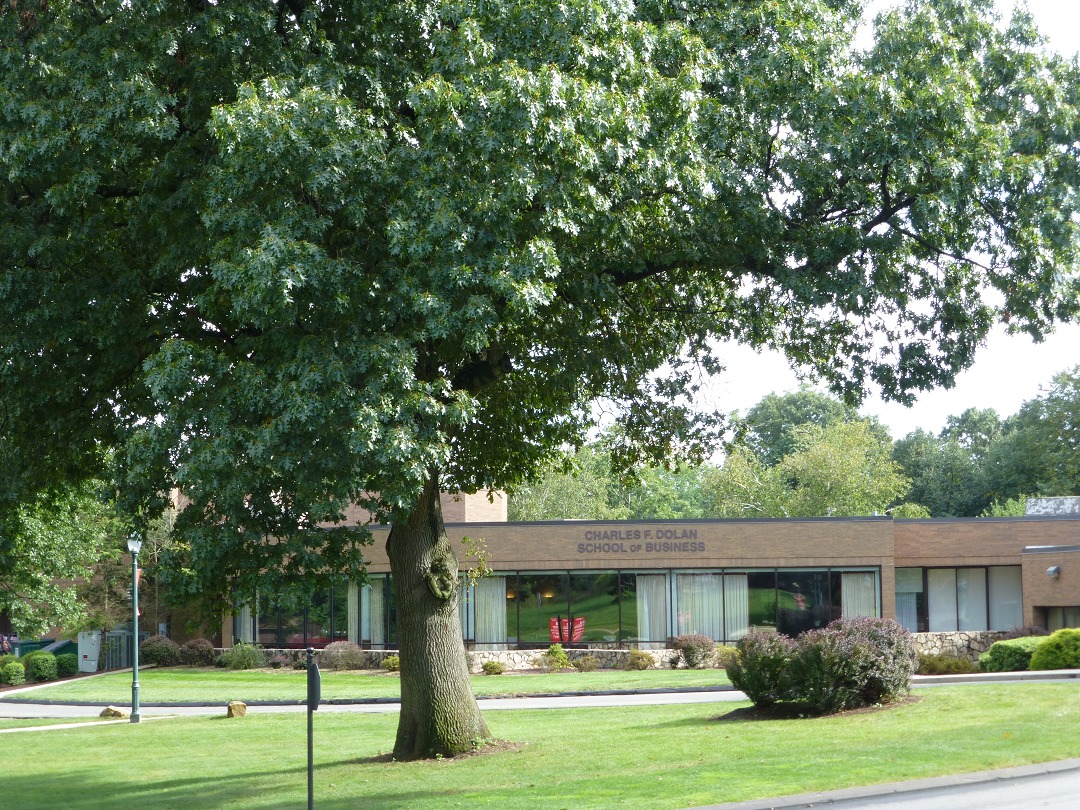 Approach to Dolan School of Business at Fairfield University in Fairfield, Connecticut, USA.